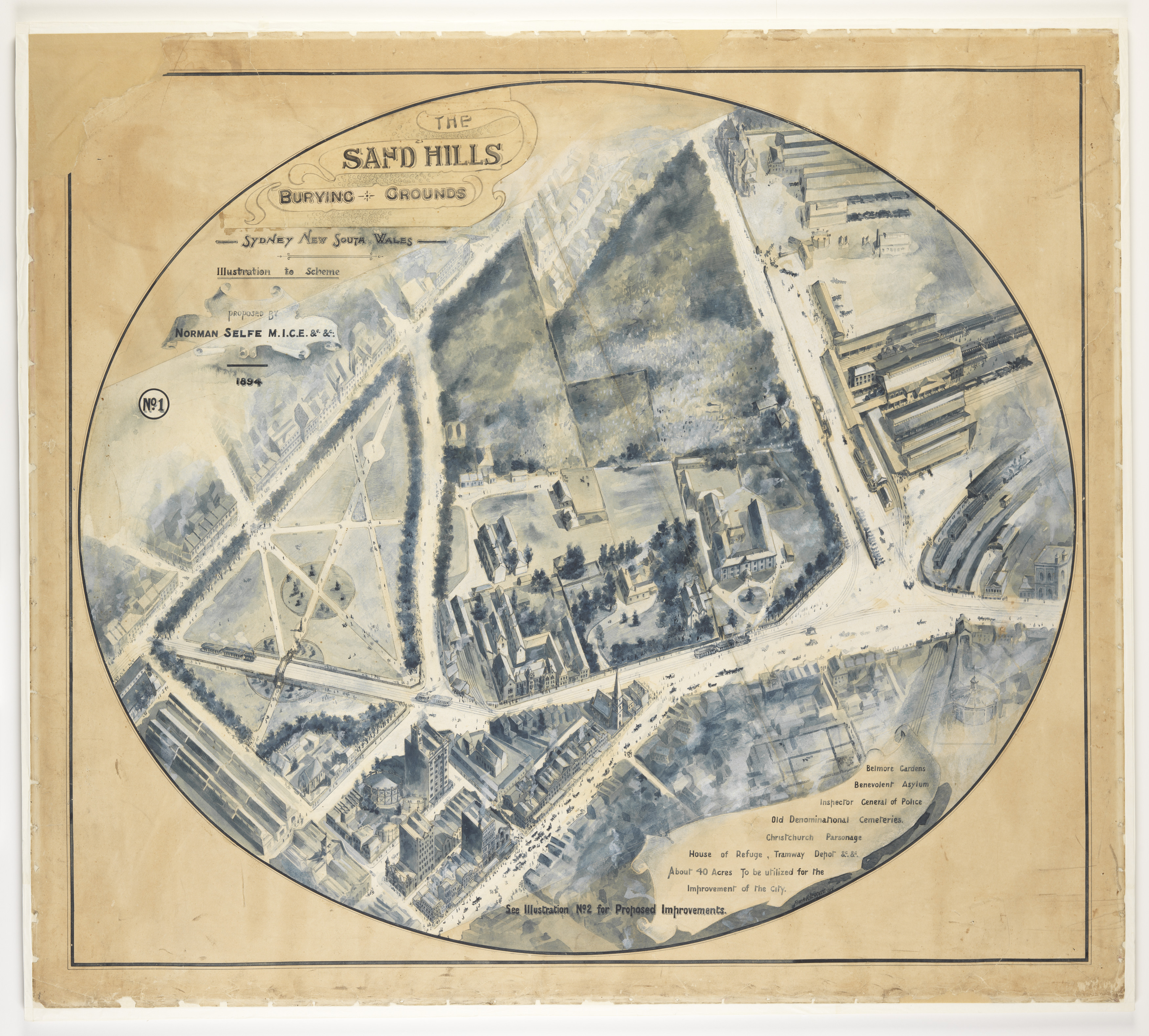 The Sand Hills Burying Grounds, Sydney New South Wales. Illustration to scheme proposed by Norman Selfe, 1894. No.1. Drawing (pen & ink and watercolour) by Norman Selfe of the area of the Devonshire Street Cemetery. Associated drawing No.2 shows Selfe's proposed use of the area. SLNSW Title: Royal Australian Historical Society : proposed plans of area near Central Station, Sydney SLNSW Supplementary Identifier numbers - Call Number: PXD 1072; File number: FL10464807; Reference code 421632; IE Number IE10464793